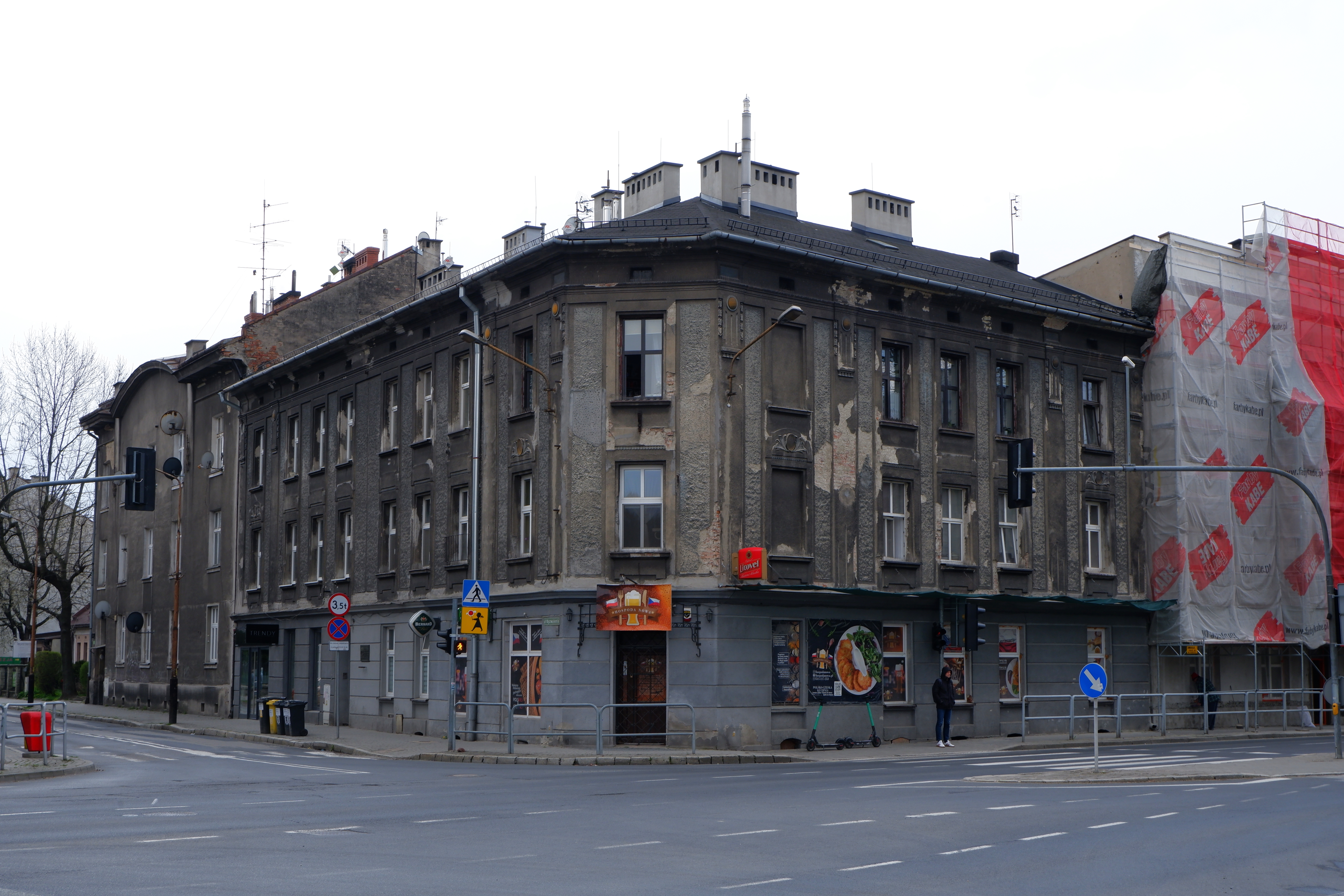 Tenement house at 33 Wyzwolenia Street / 54 Piłsudskiego Street in Bielsko-Biała, Poland. Place of birth of Emil Zegadłowicz.